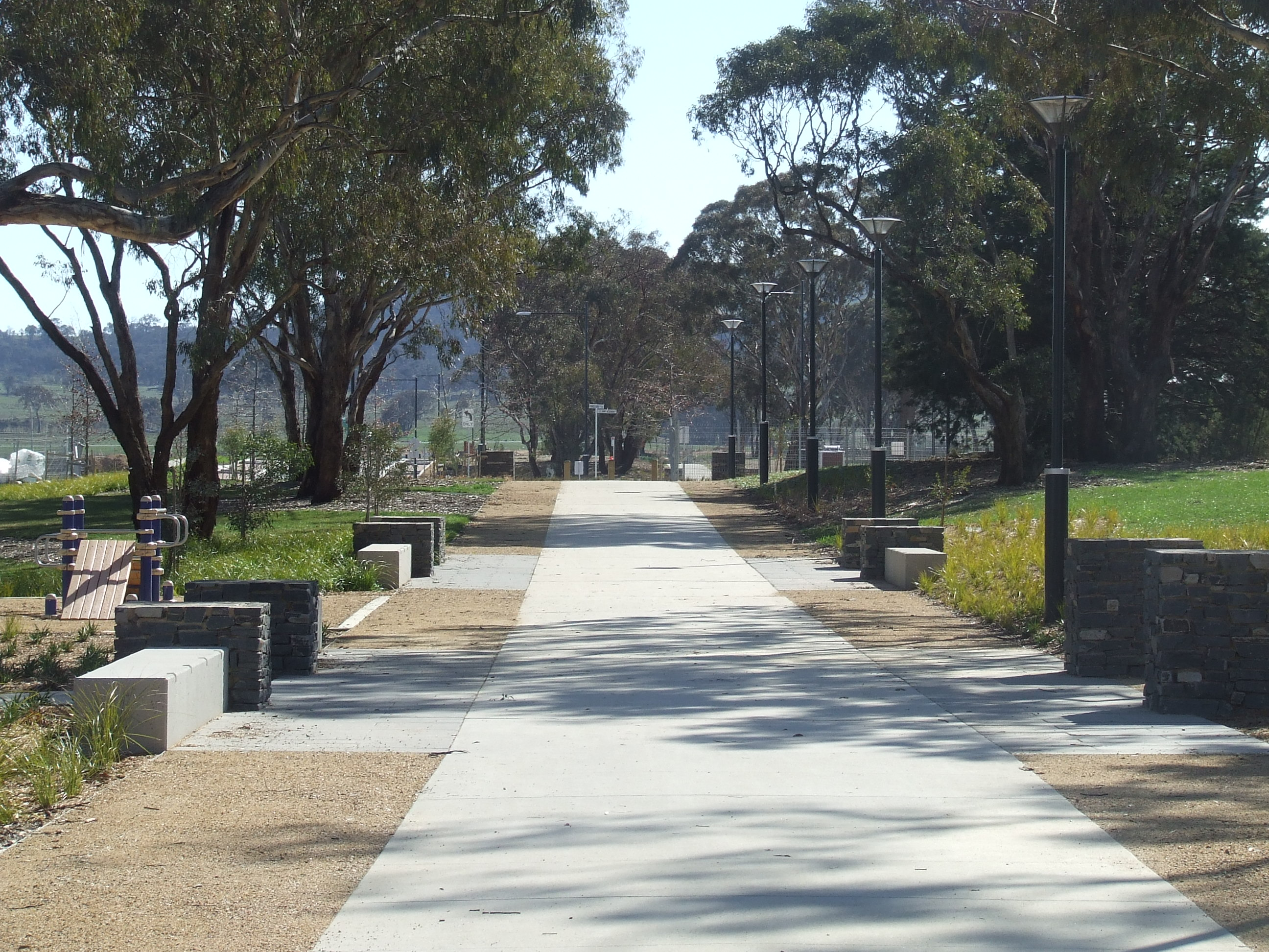 Walking path through Forde, ACT